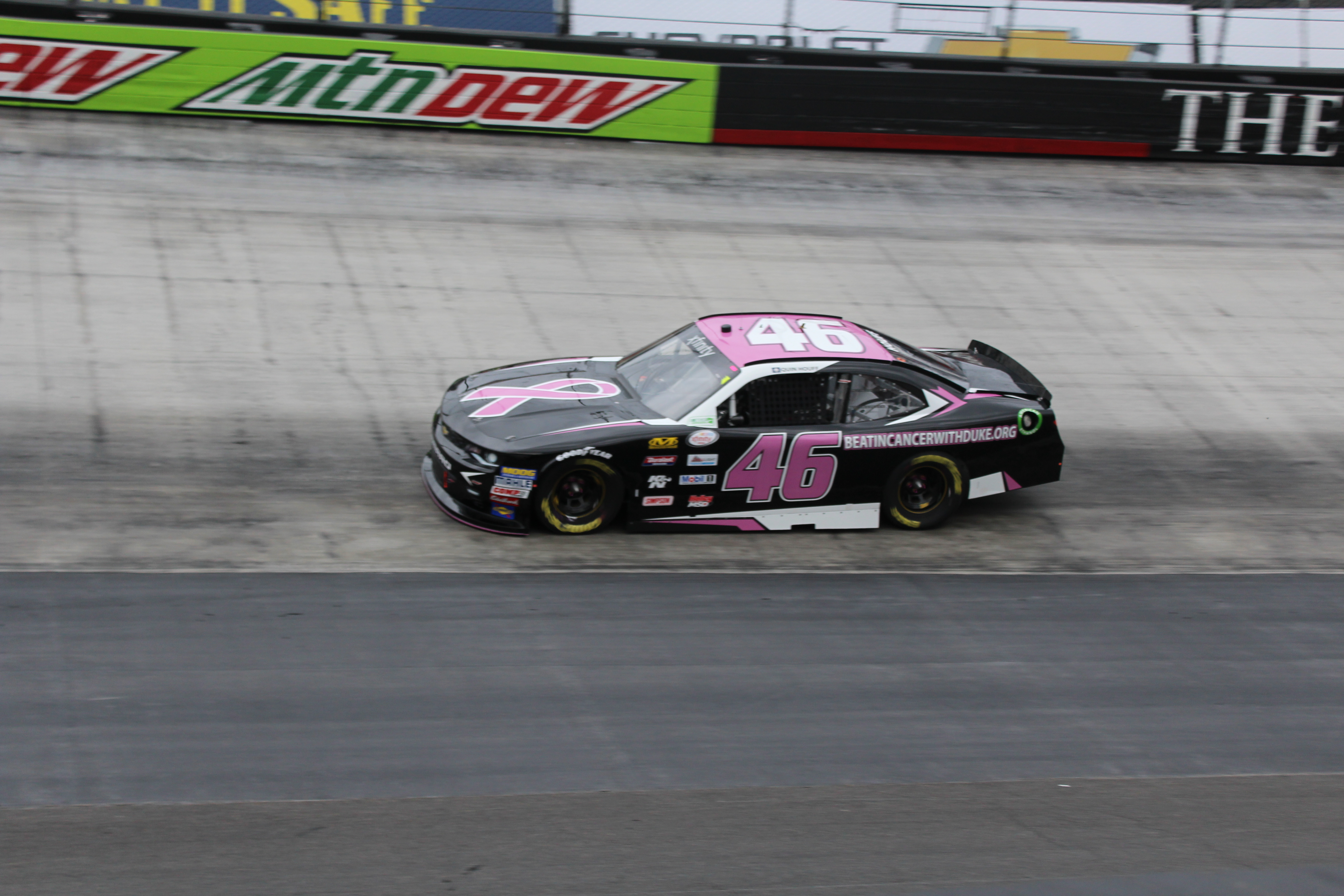 The Chevrolet negotiates the high banks of Bristol Motor Speedway during a NASCAR Xfinity Series practice with driver Quin Houff who was making his series debut in the event.